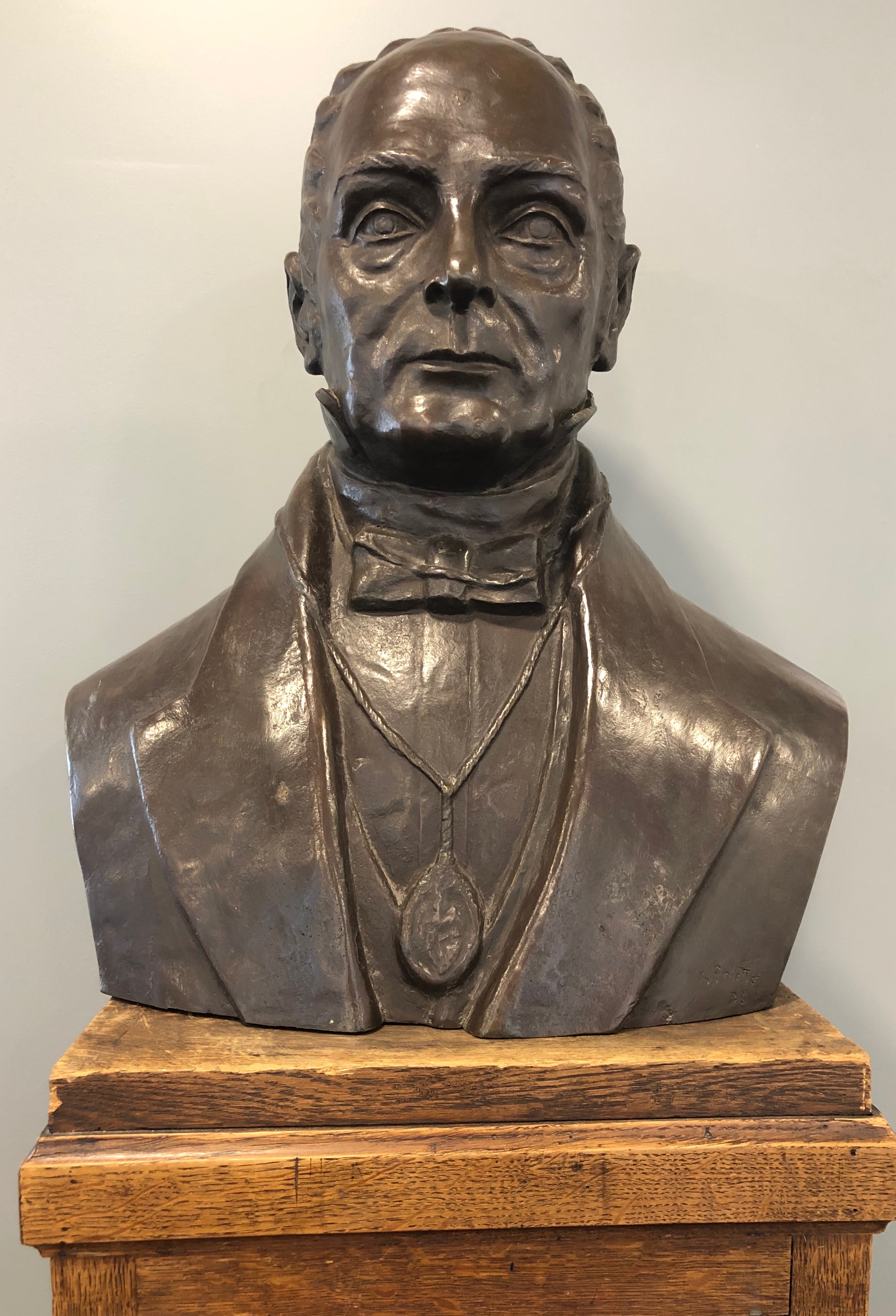 Bust of Venezuelan-chilean humanist Andrés Bello at the Institute of Latin American Studies of Paris.